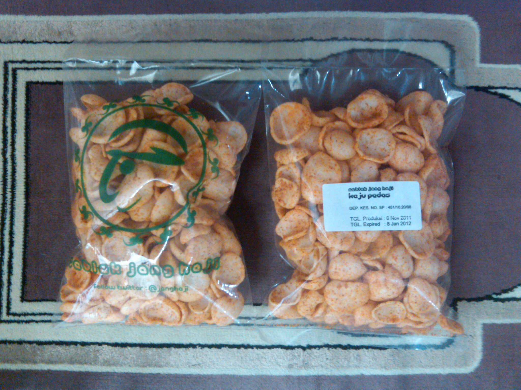 SEBLAK JANG HAJI Rasa Keju Pedas